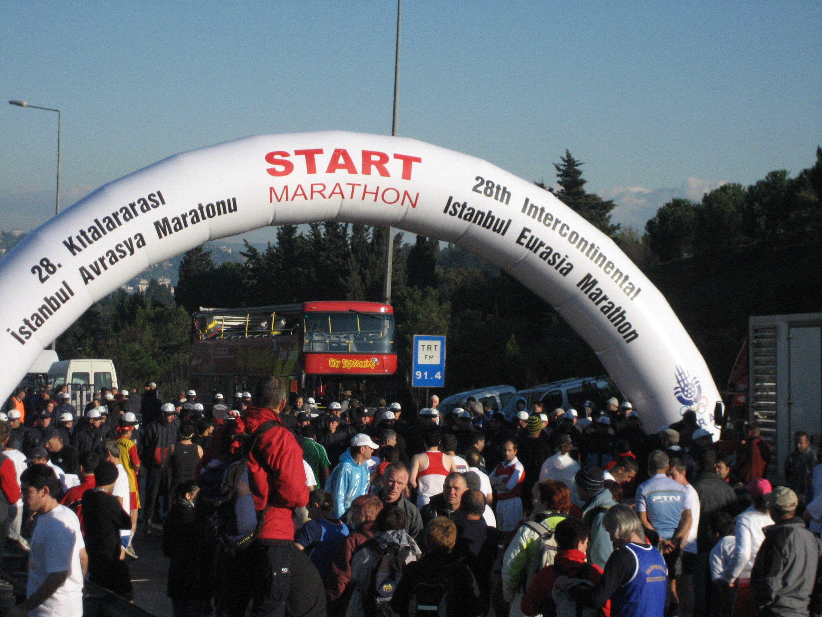 Starting point of the 28th Intercontinental Istanbul Eurasia Marathon, Istanbul, TurkeyGuarding the Start